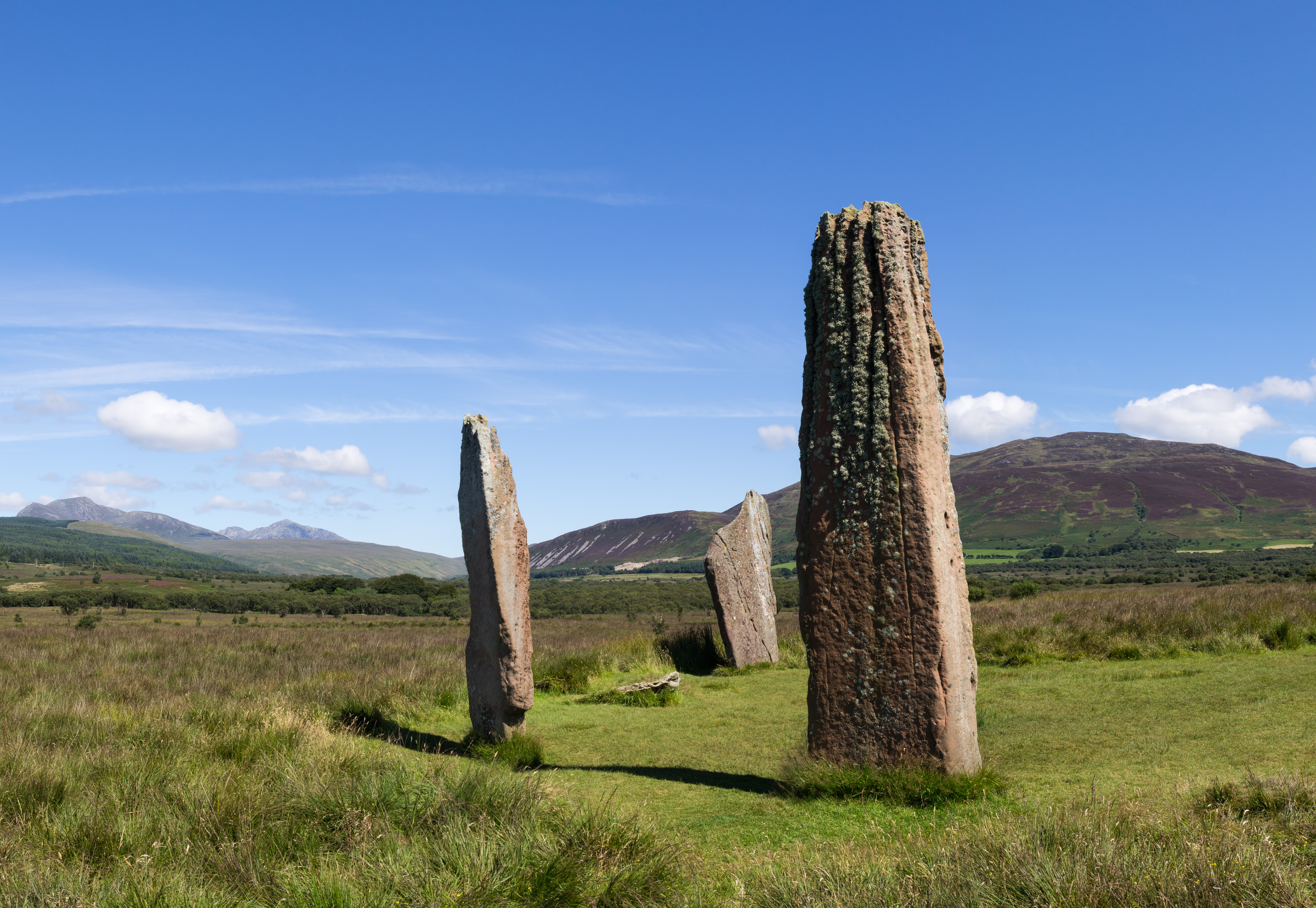 Circle 2 at Machrie Moor. In the far distance to the left are the mountains of the north of Arran, consisting of Beinn Tarsuinn and Goat Fell